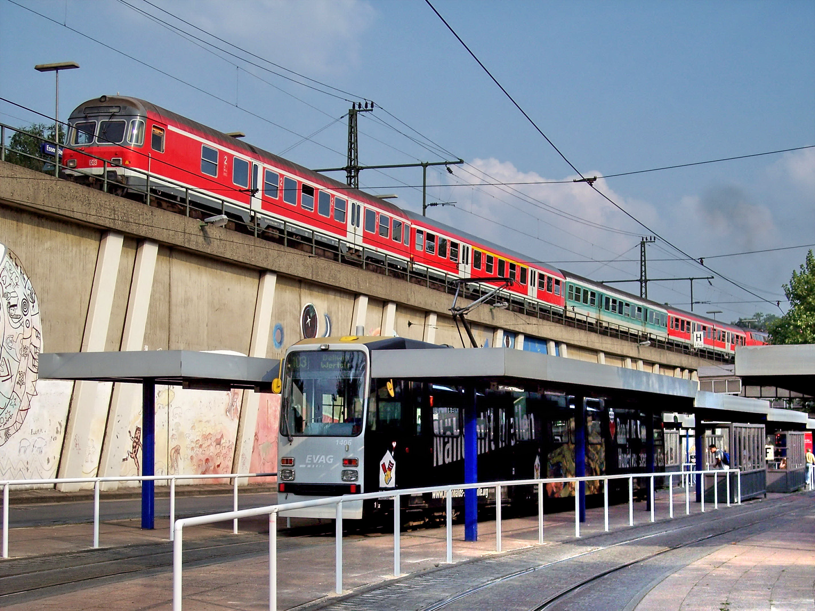 Public transport in the Essen borough of Steele is centred upon the railway, tram and bus interchange at Steele S-Bahnhof. Here, a Deutsche Bahn commuter train meets an Essener Verkehrs-AG tram.